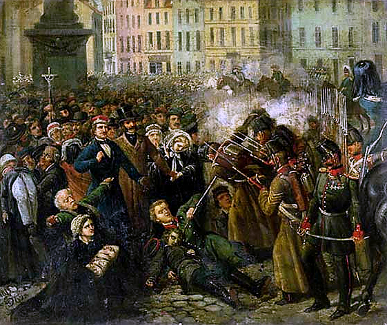 Massacre of Michal Landy, 8th April 1861